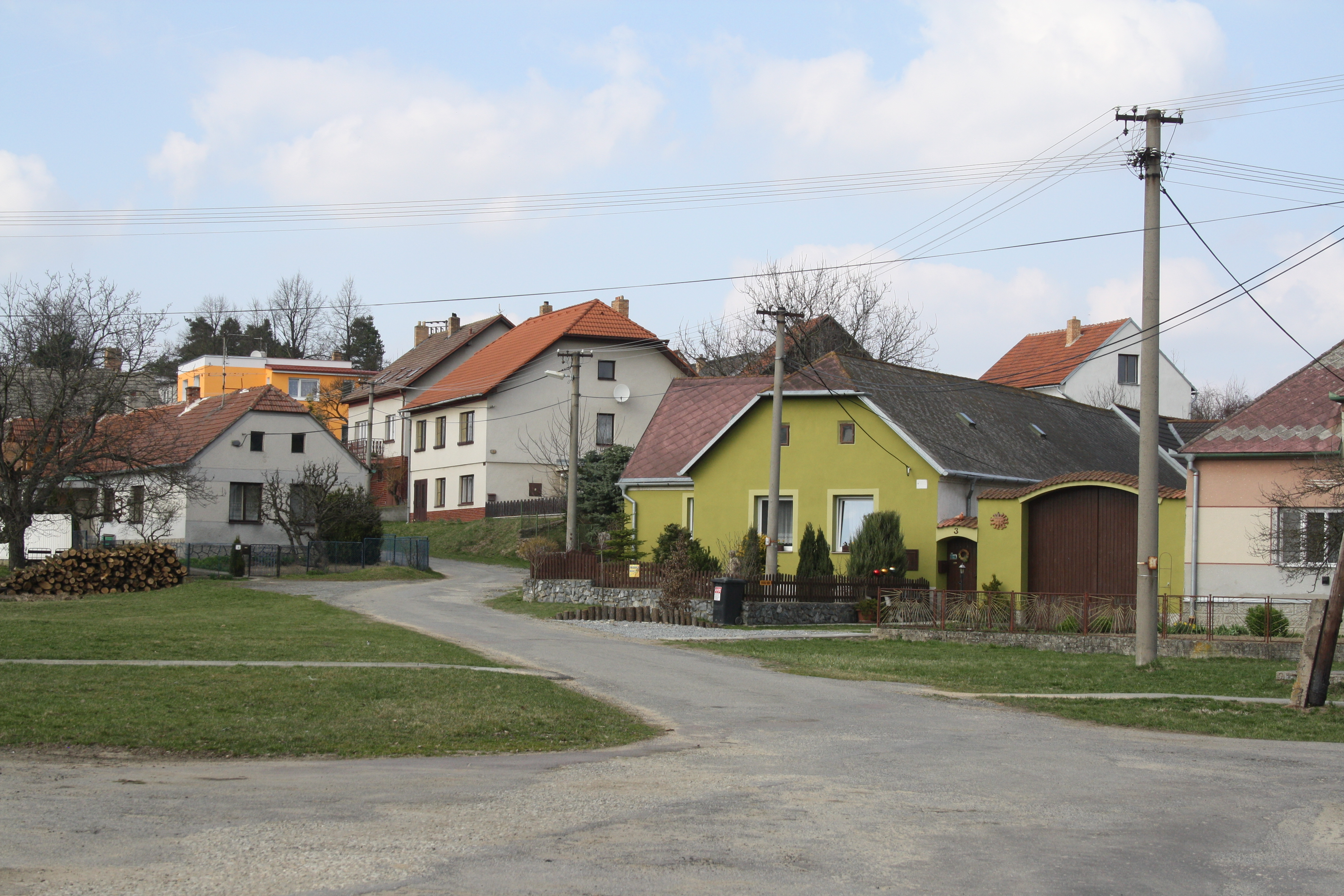 Place in Dolní Vilémovice, Třebíč District.